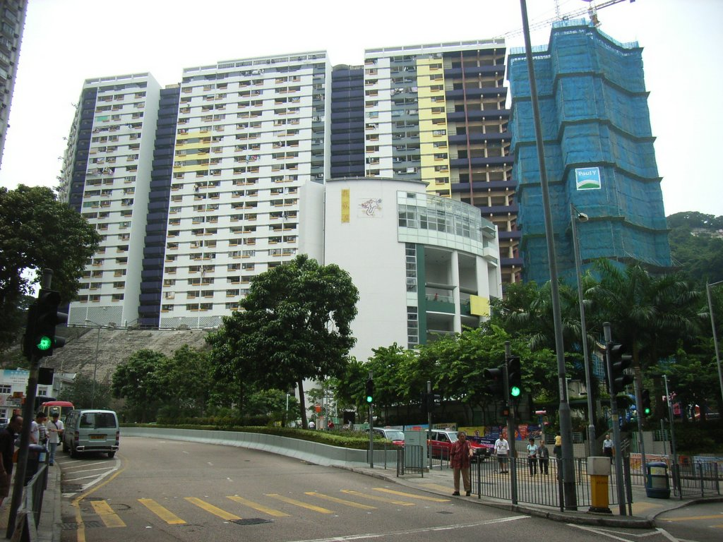 Smithfield 士美非路, Kennedy Town, Hong Kong (By KennedyTom).